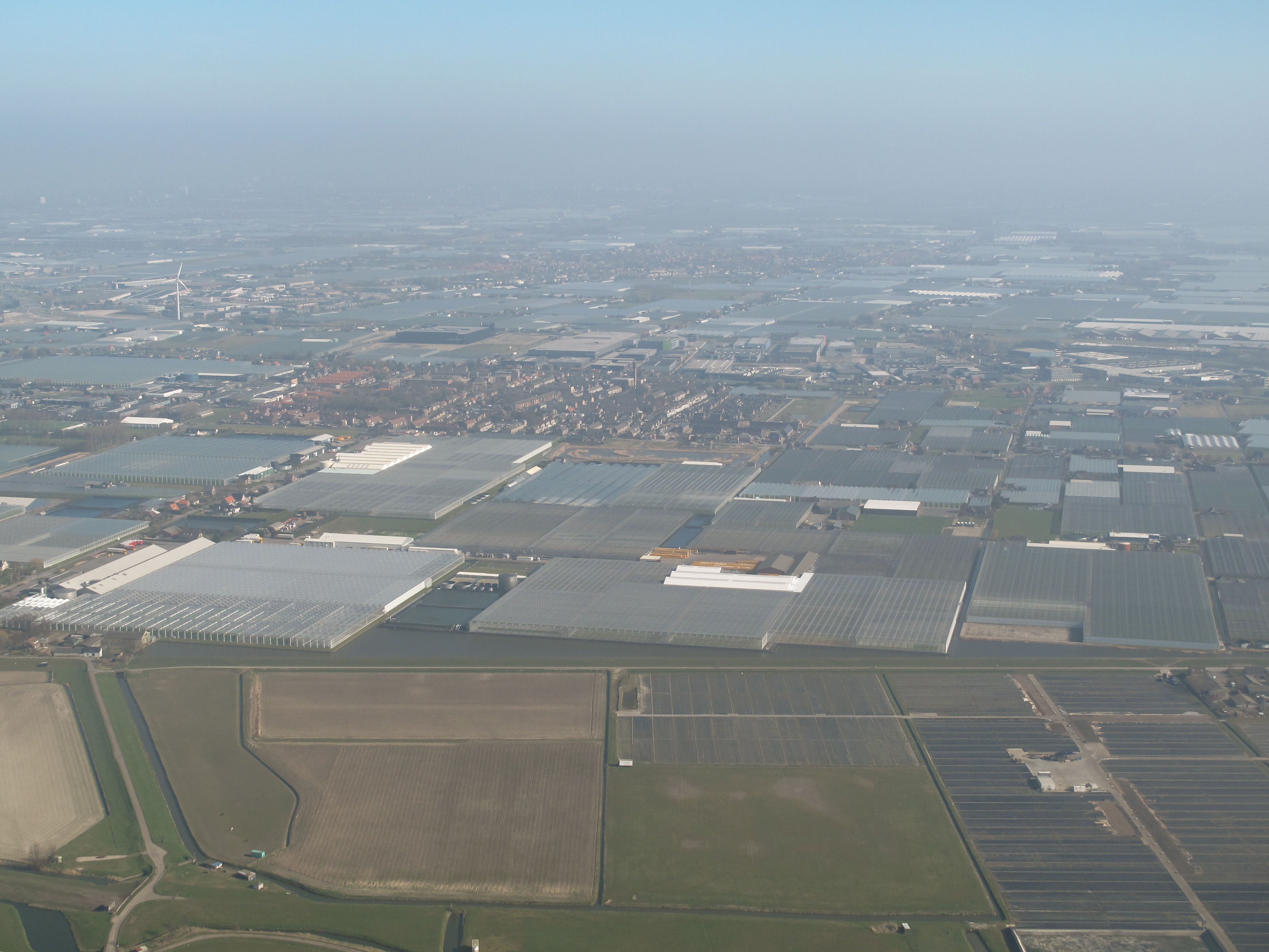 Maasdijk, view to the village with greenhouses in the front